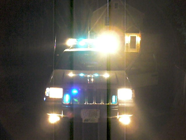 Image of a New Jersey EMT's personal vehicle with lights flashing, taken at night.